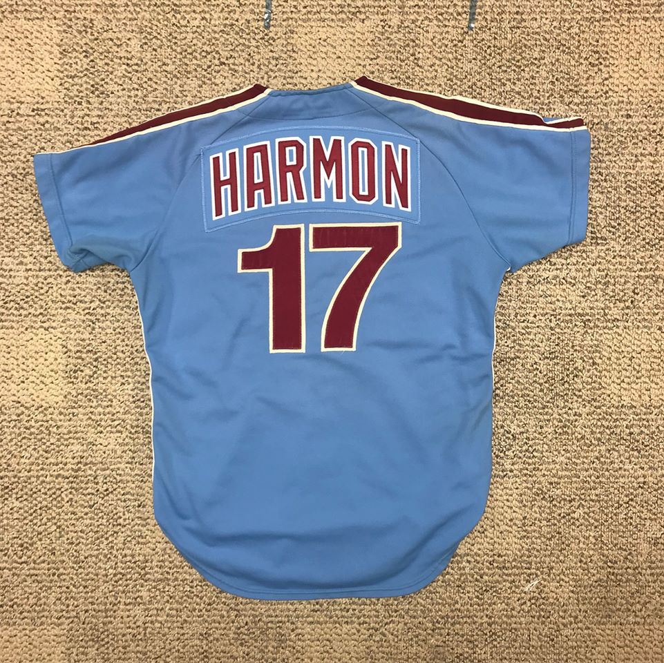 1977 Philadelphia Phillies #17 Terry Harmon game worn road jersey restored and photographed by William F. Henderson who may be reached through his website at thedream.shop